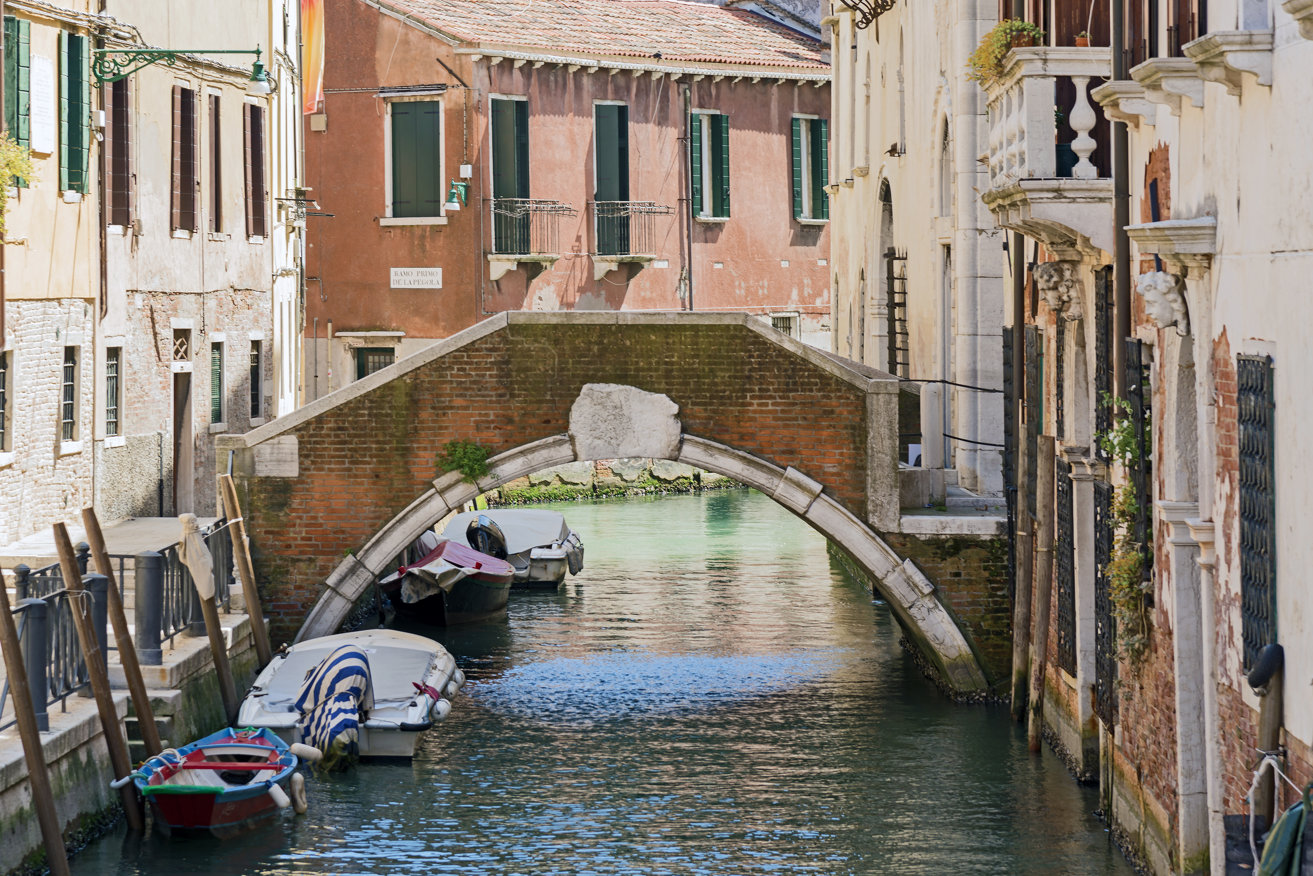 Ponte Erizzo on Rio de la Ca' di Dio - Venice